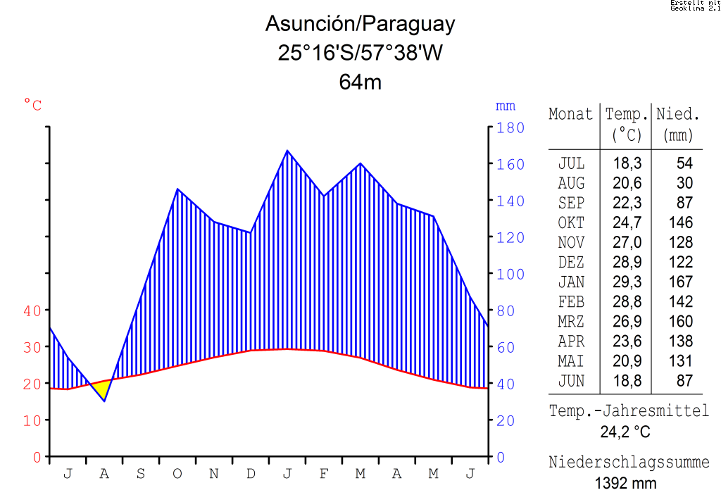 climate chart in the format by Walther and Lieth, metric, °Celsisus and millimeters, made with Geoklima 2.1 DateOctober 2006SourceSoftware: Geoklima 2.1 Website GeoklimaAuthorHedwig in WashingtonPermission (Reusing this file) Own work, attribution required (Multi-license with GFDL and Creative Commons CC-BY 2.5)